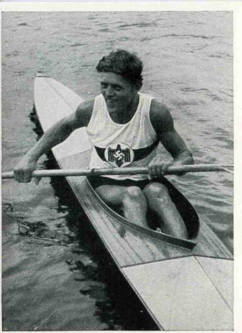 Ernst Krebs of Germany, Gold Medalist, K-1 10000 Metres Canoeing Race, 1936 Berlin Olympics